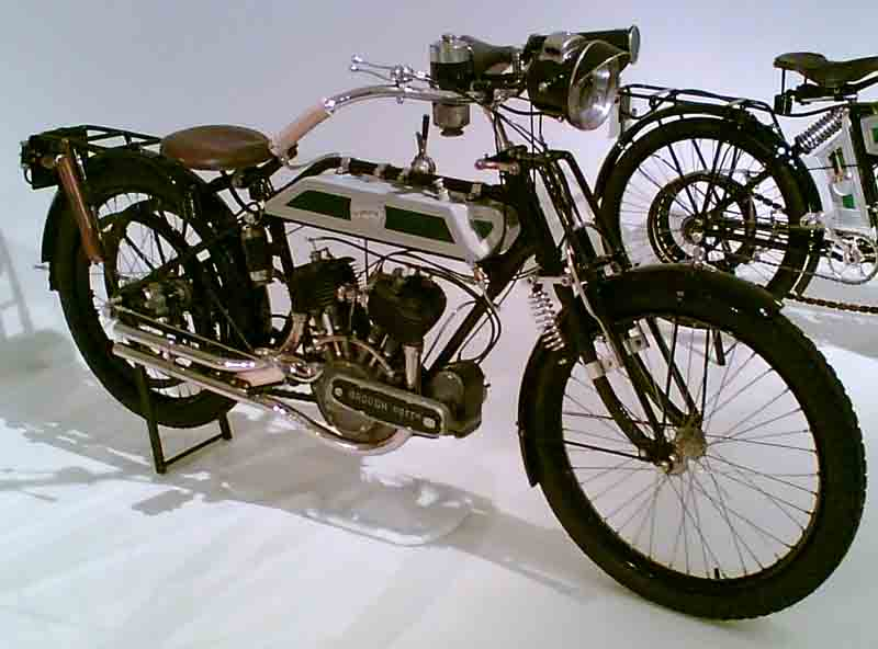 V-twin motorcycle built in 1913 by W E Brough, father of George Brough